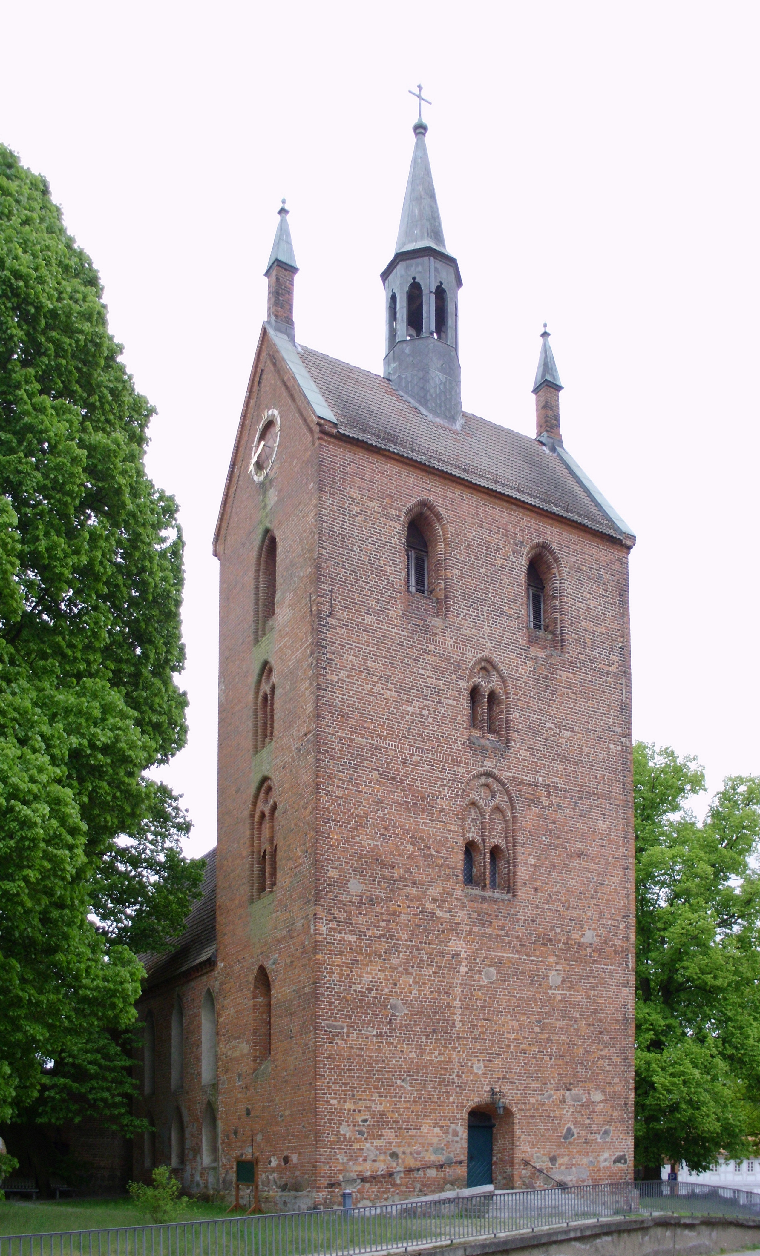 Alt Ruppin church St.Nikolai, Neuruppin city, Ostprignitz-Ruppin district, Brandenburg state, Germany